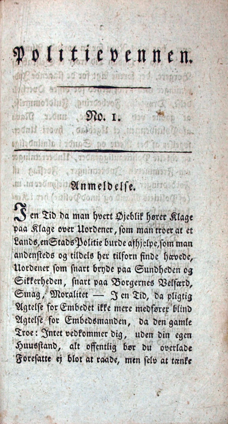 First issue of the Danish periodical "Politievennen" from 1798, published by Klaus Henrik Seidelin.